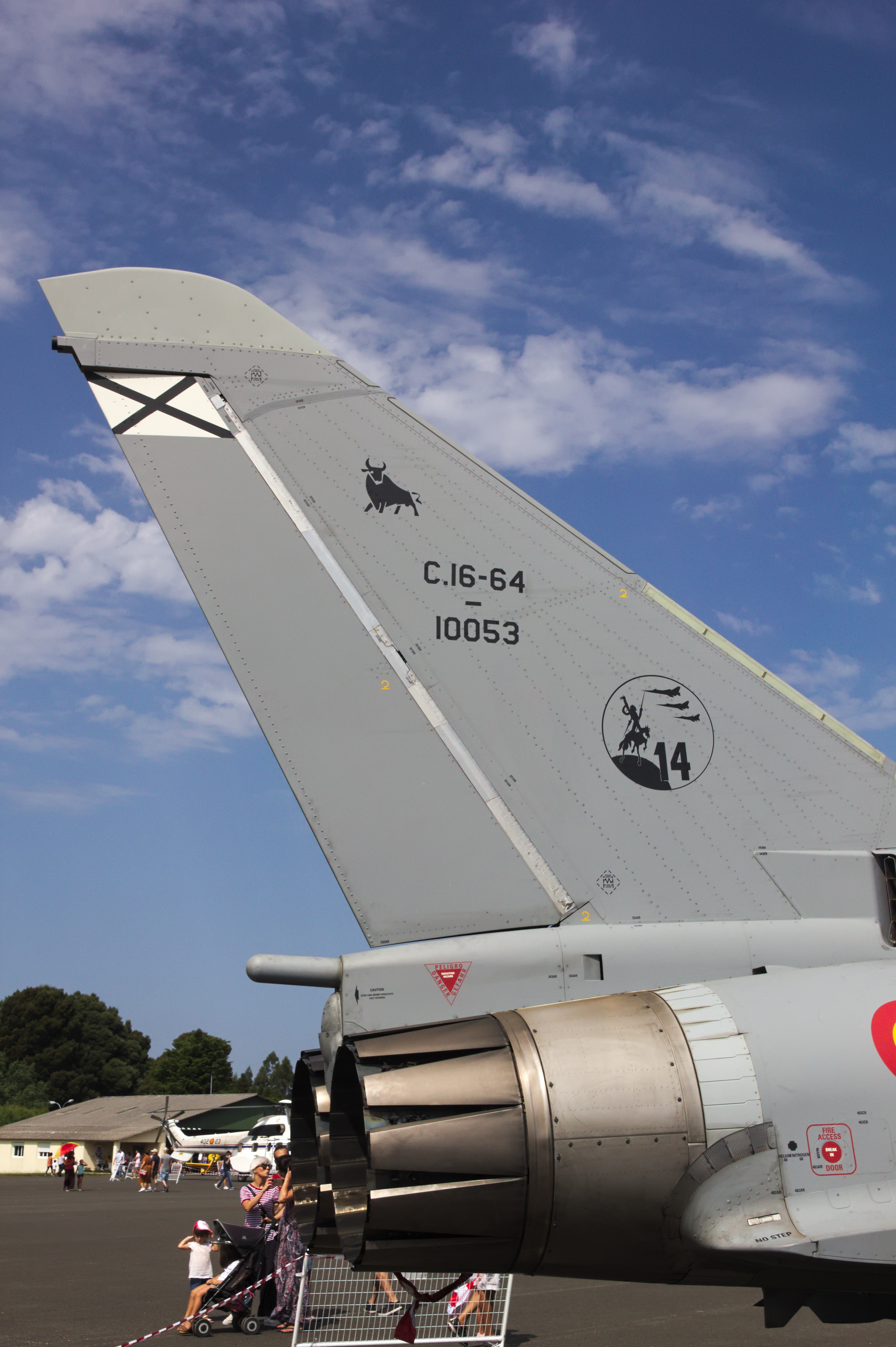 Eurofighter Typhoon during the open day in the military aerodrome in Lavacolla (Santiago de Compostela) in its 25 anniversary.